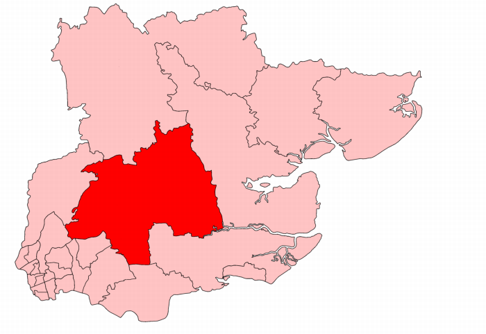 A map of Chelmsford constituency within Essex, as it existed from 1945 to 1950.